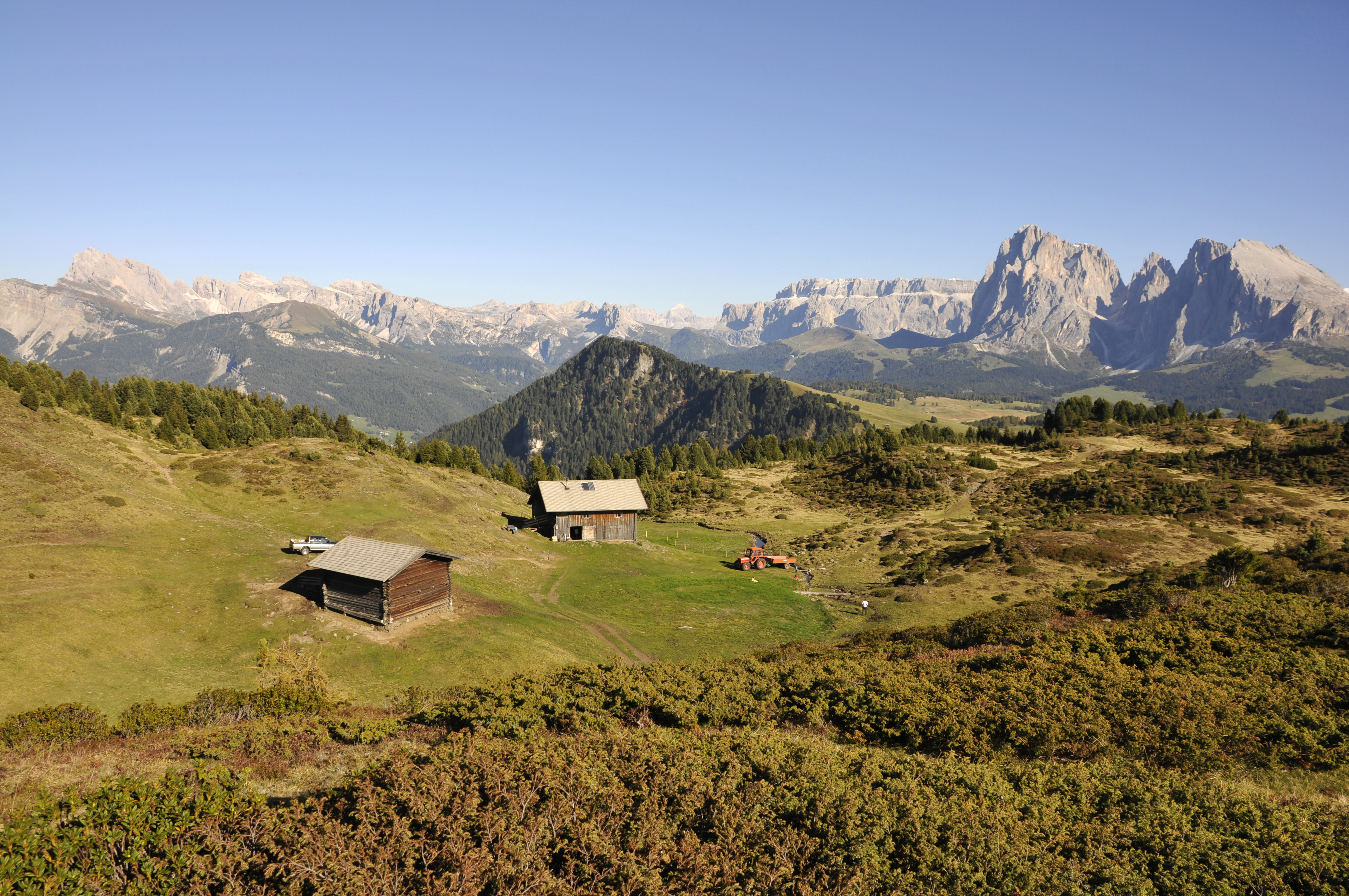 Alpine hut on the Puflatsch in South Tyrol